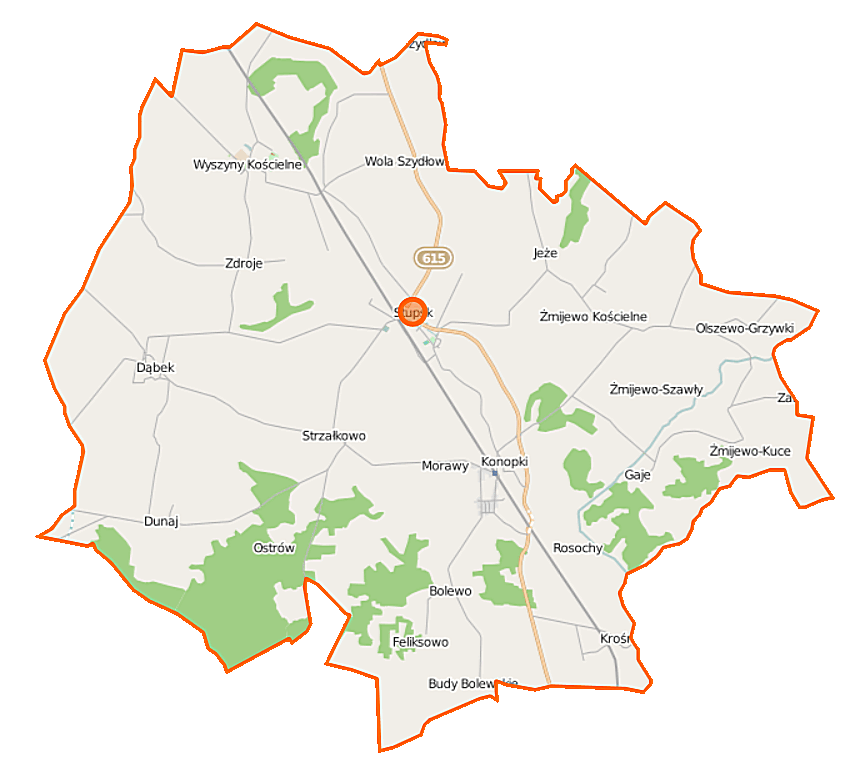 Map of Gmina Stupsk, Poland This map of Stupsk (gmina) was created from OpenStreetMap project data, collected by the community. This map may be incomplete, and may contain errors. Don't rely solely on it for navigation. Border coordinates53.073820.3247←↕→20.560252.9451